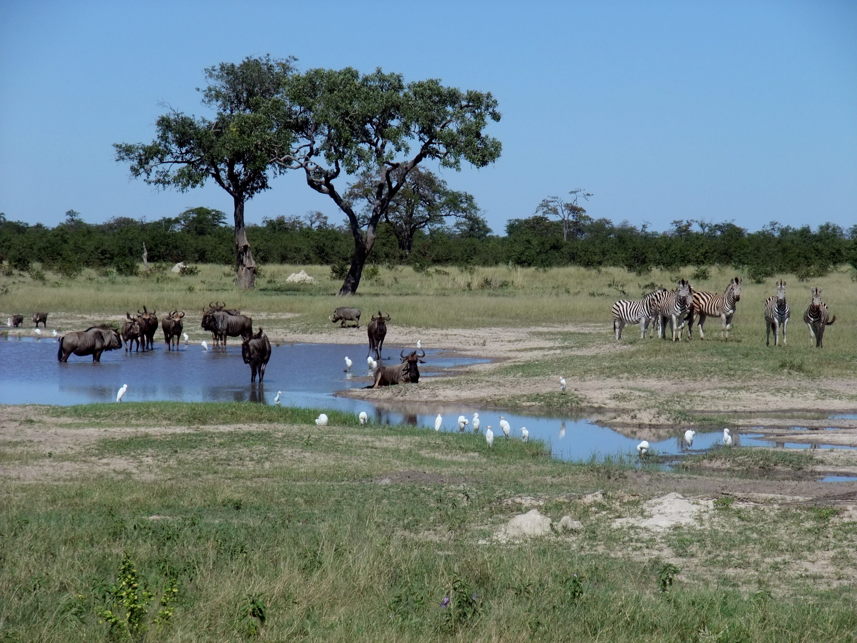 Gnus and Zebras in Chobe National Park, Botswana